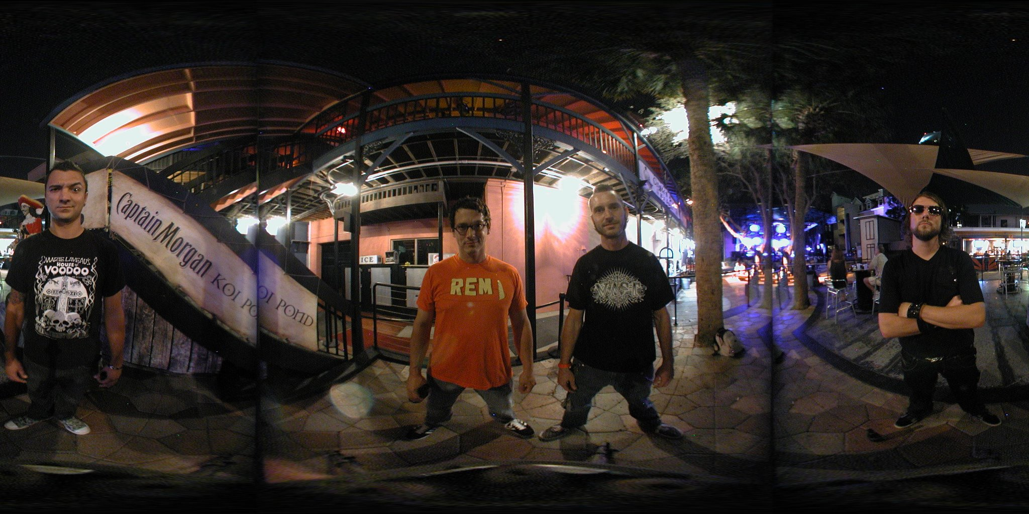 Pic of Hot Action Cop prior to a show in St. Petersburg, FL in 9/2011.